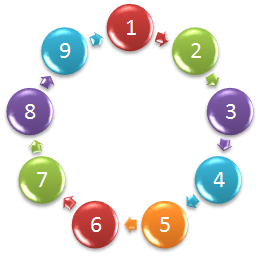 English.123Reqemler